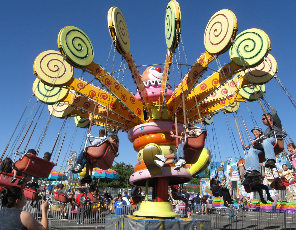 New Mexico State Fair, Sept. 11, 2010